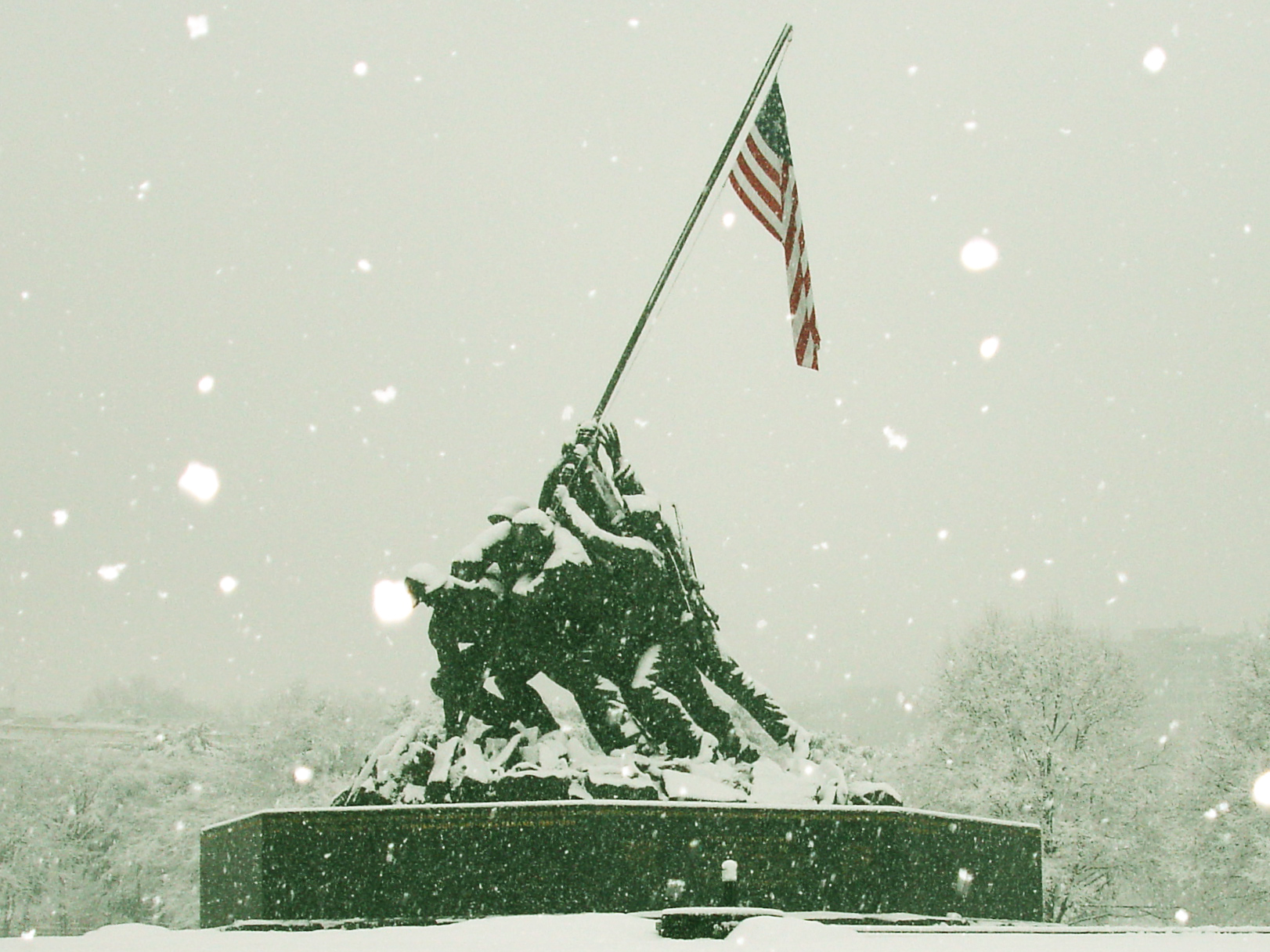 Iwo Jima memorial, Arlington, VA